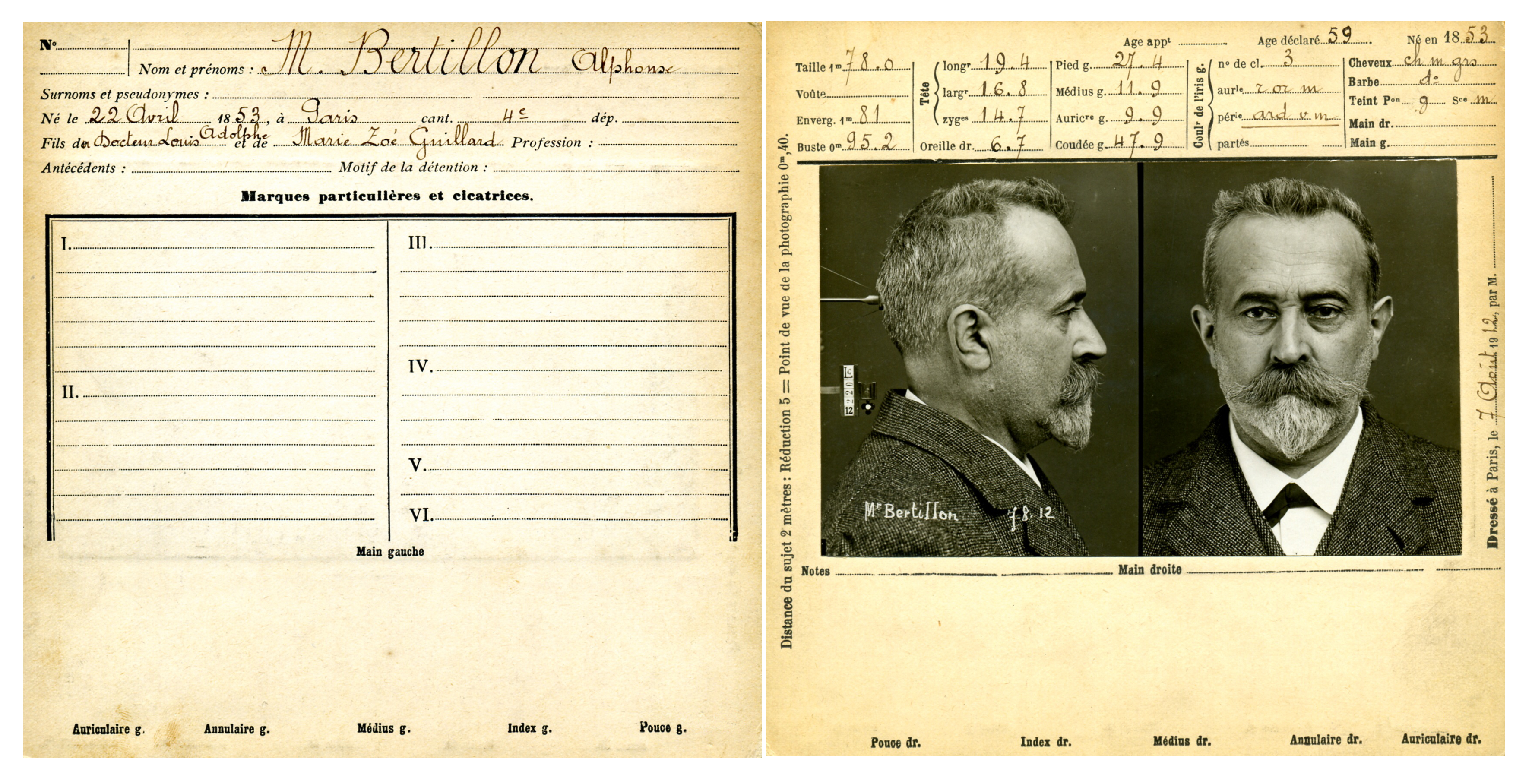 Anthropometric data sheet (both sides) of Alphonse Bertillon (1853-1914), a pioneer of the Scientific Police, inventor of anthropometry, first head of the Forensic Identification Service of the Prefecture de Police in Paris (1893).